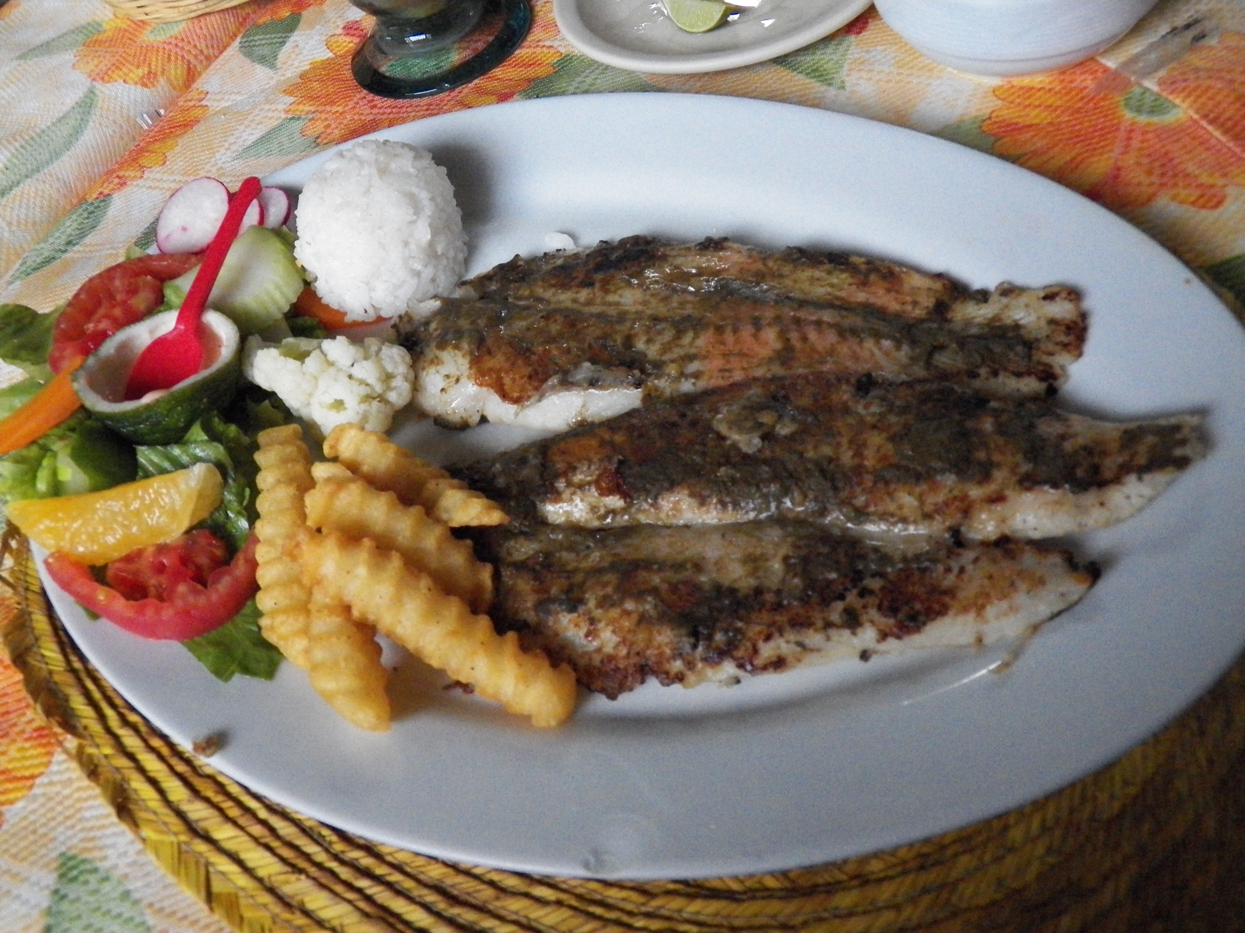 Fish fillet aux herbes, Oaxaca, Mexico